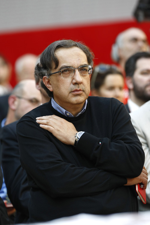 SERGIO MARCHIONNE